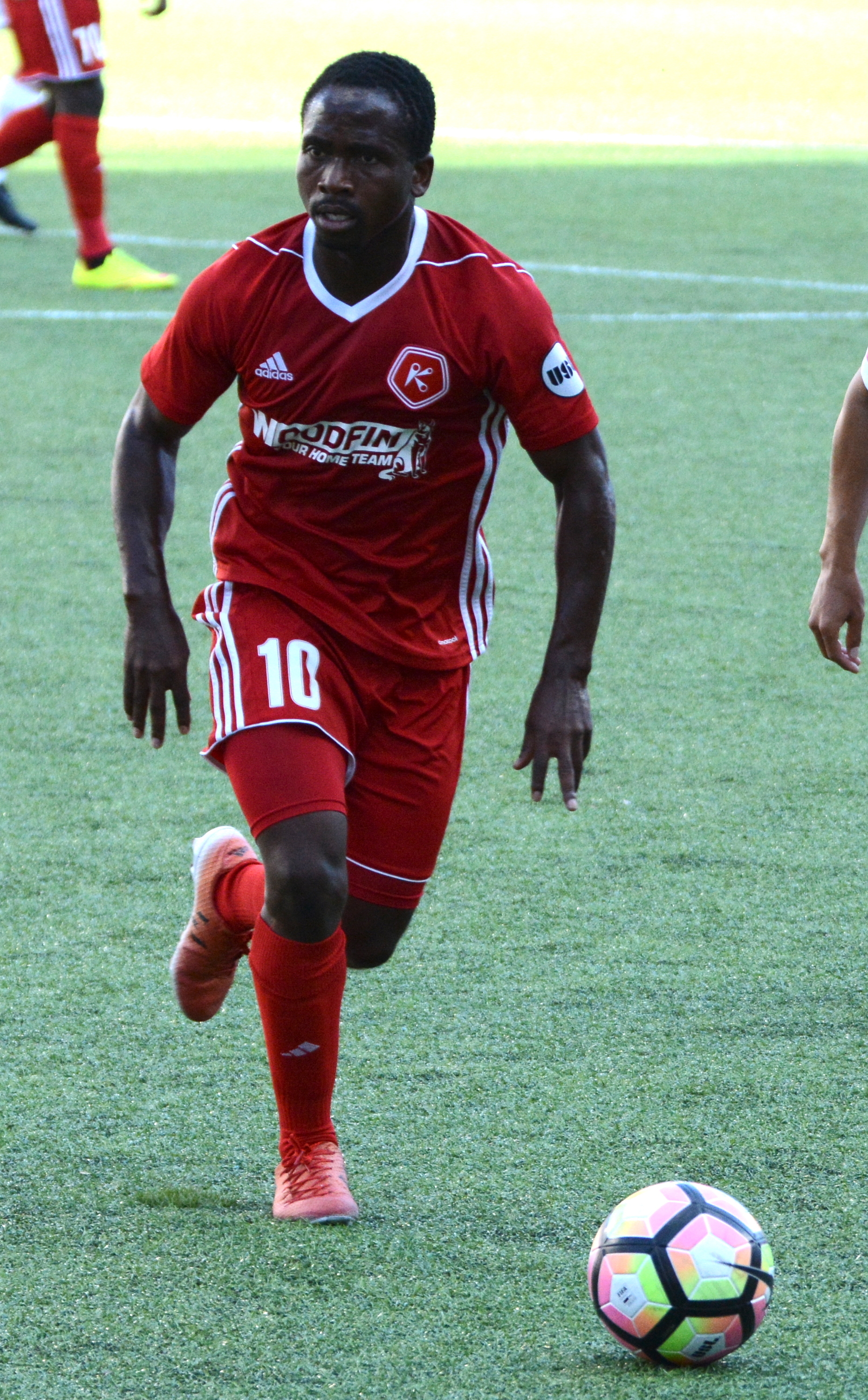 Taken during a USL regular season match between FC Cincinnati and Richmond Kickers at Nippert Stadium in Cincinnati, USA on July 9, 2017.